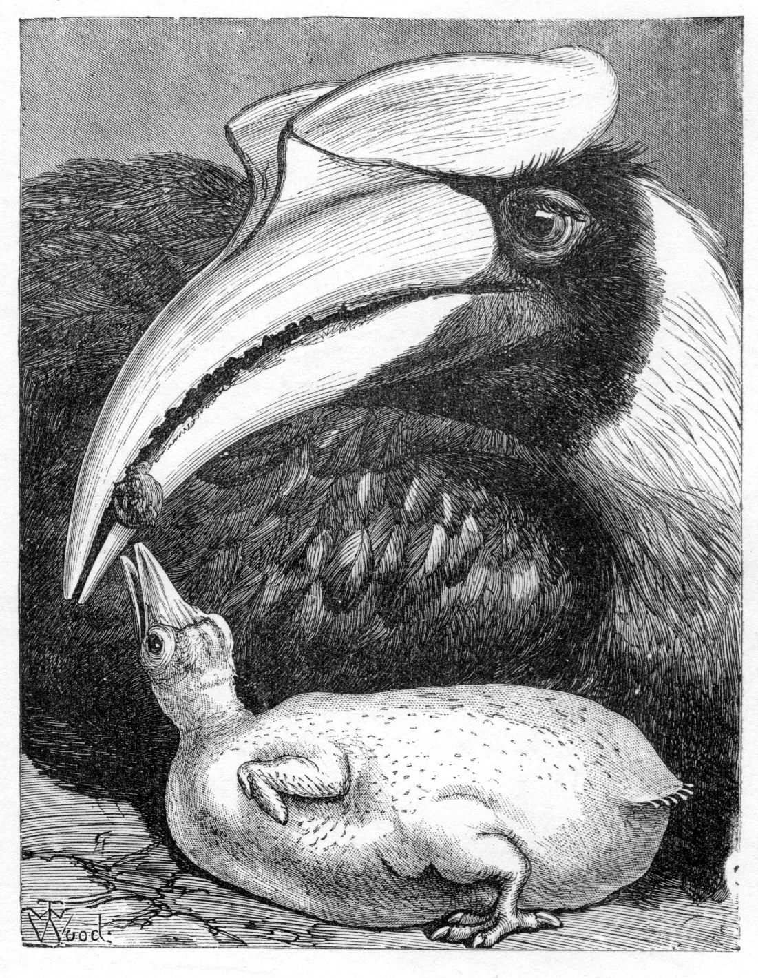 Drawing of Buceros bicornis. Caption reads "FEMALE HORNBILL, AND YOUNG BIRD".